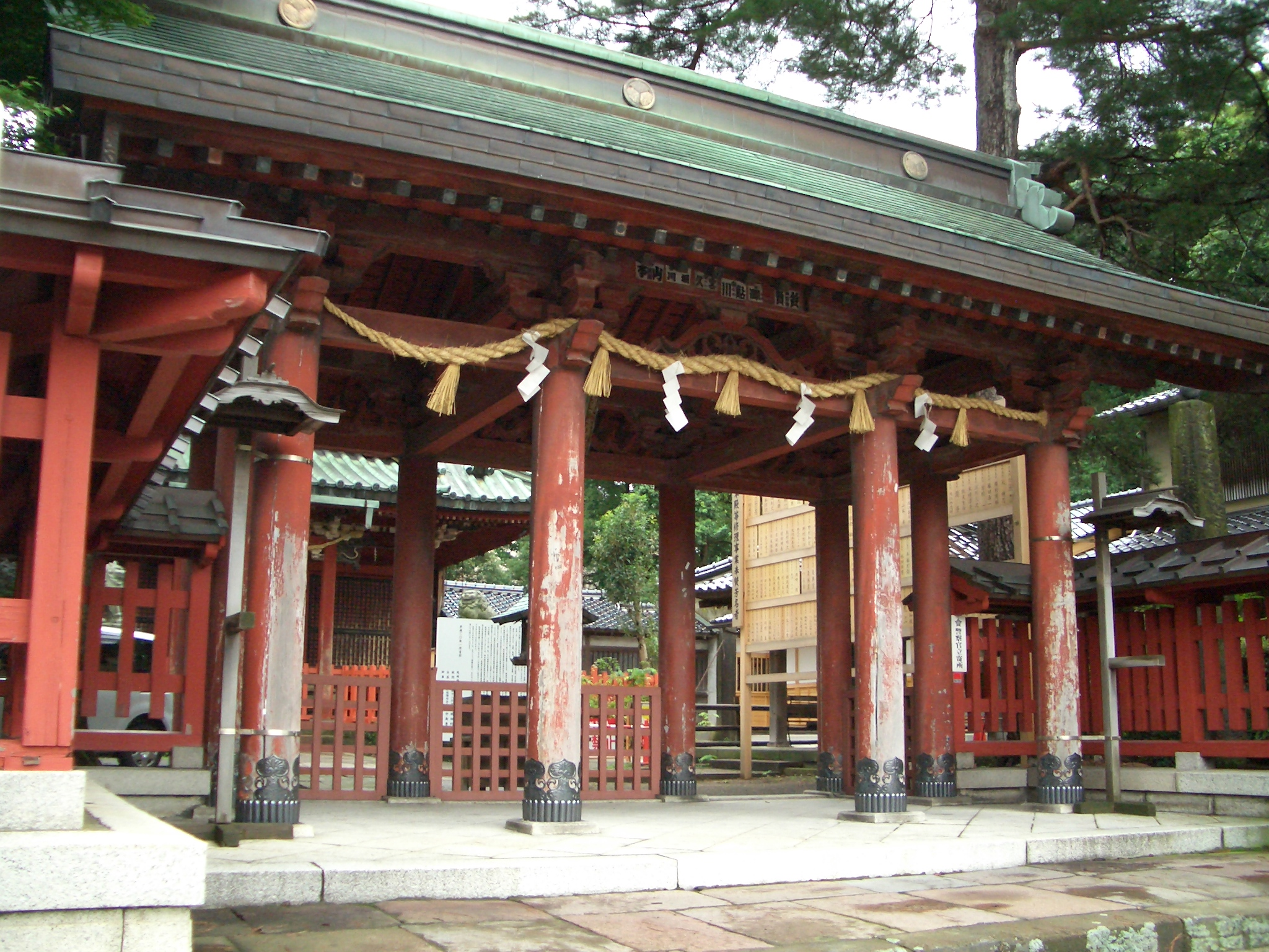 Main Gate of Ozaki Shrine (尾崎神社神門)